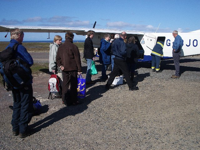 Baggage handling at Foula airstrip. Islanders' shopping from Lerwick is being offloaded whilst day visitors wait to load their bags for the return trip.